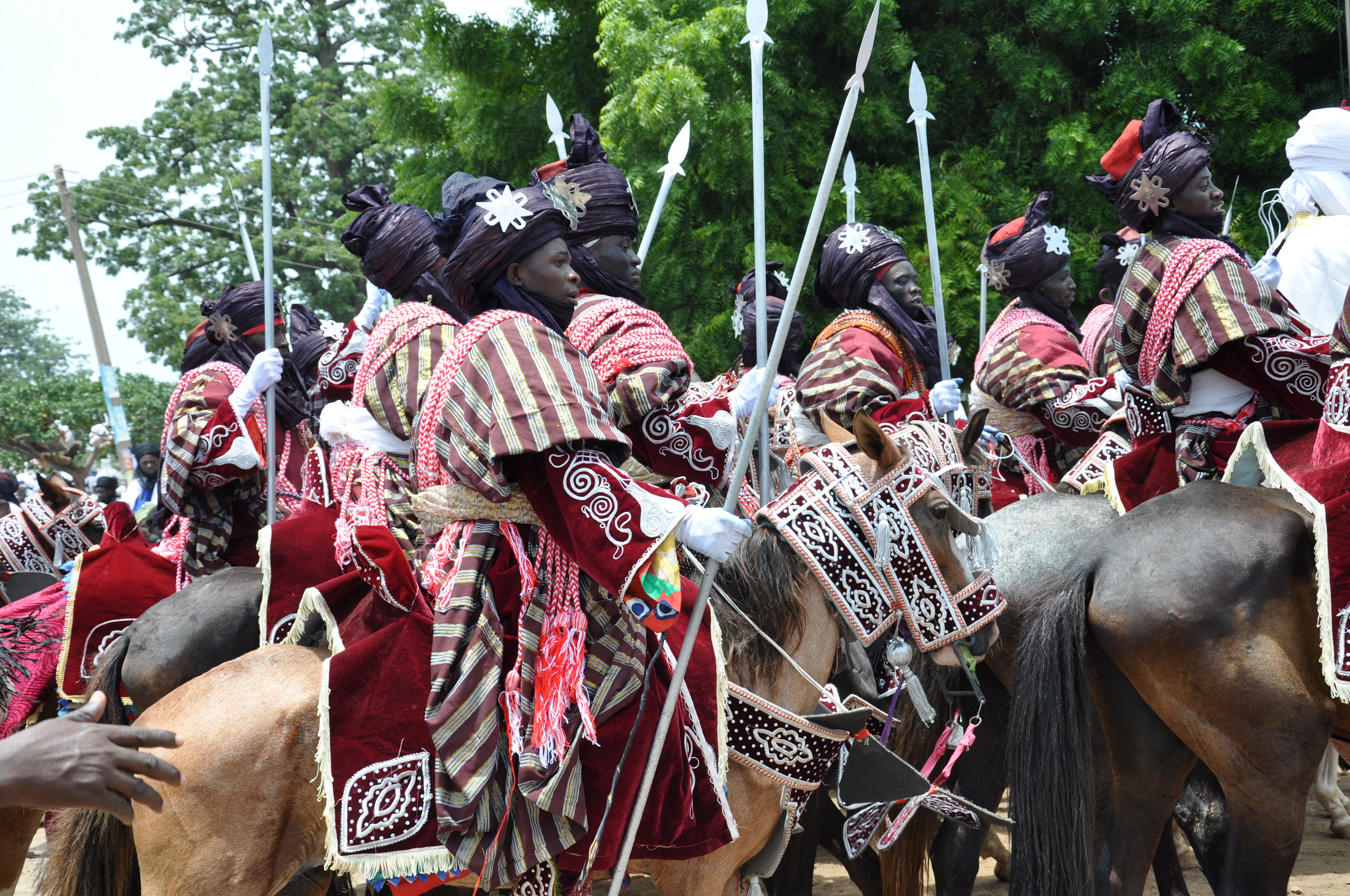 Traditional outfit during Durbar Festival in Zaria, Nigeria